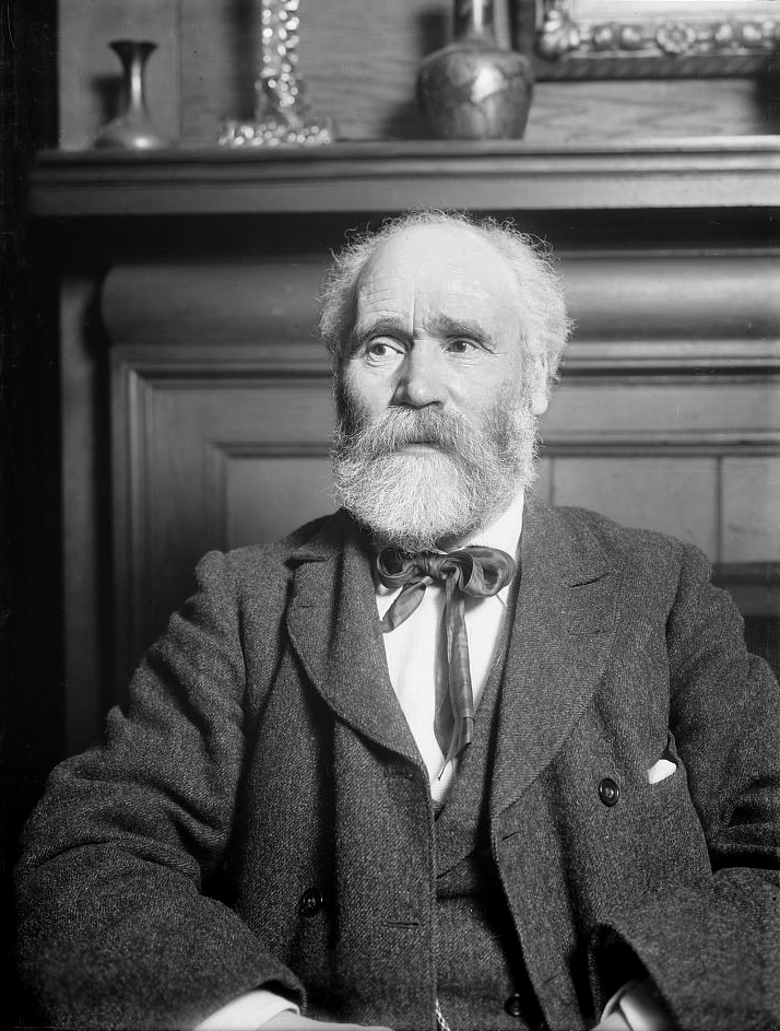 Keir Hardie, portrait bust